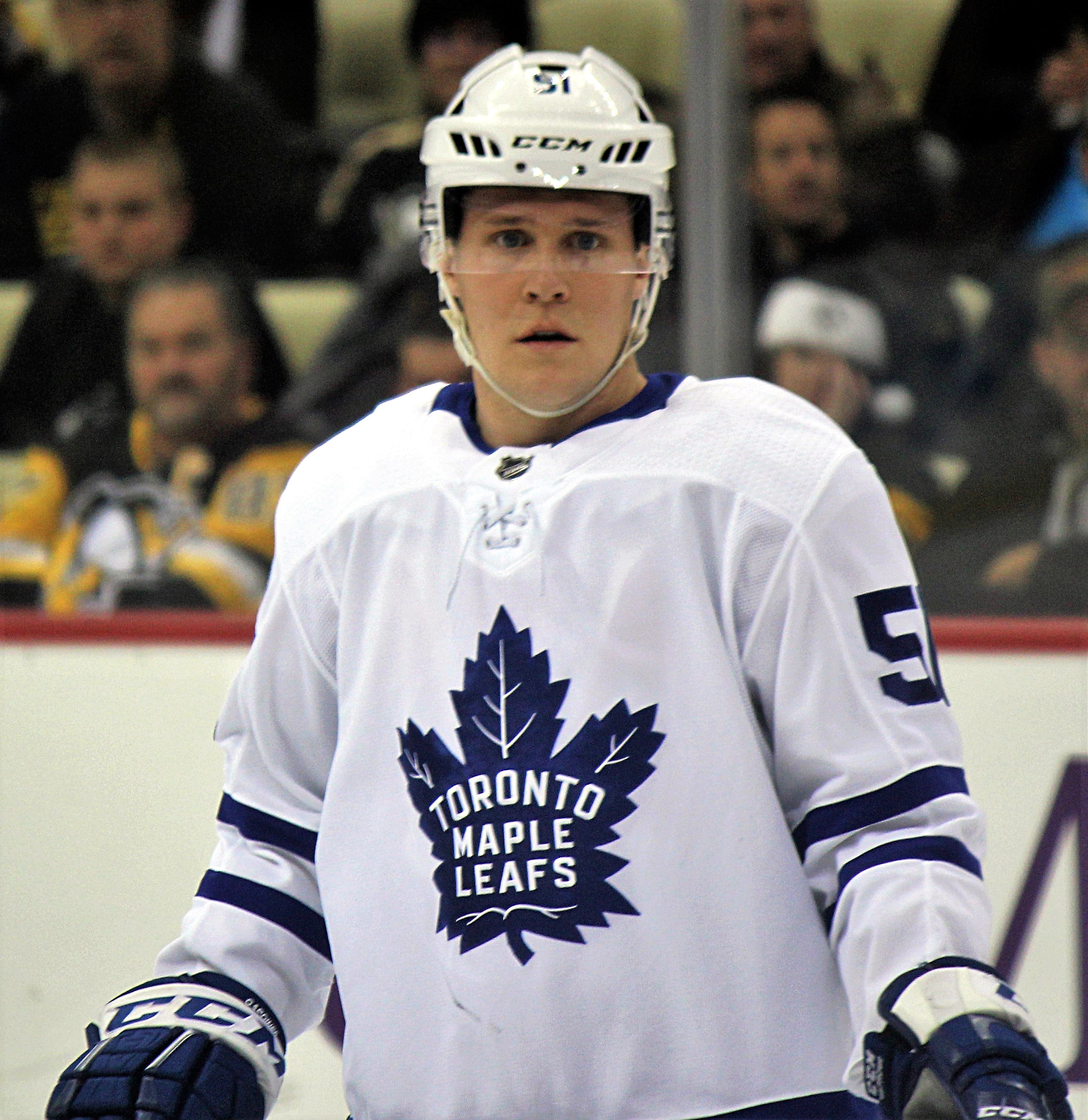 Toronto Maple Leafs defenseman Jake Gardiner during a game against the Pittsburgh Penguins, December 9, 2017, at PPG Paints Arena in Pittsburgh, PA.